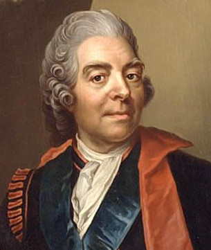 copy from Gustaf Lundberg original